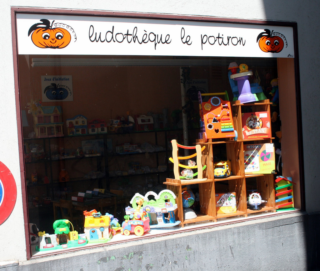 This is a picture I took of a toy library in Renens VD, Switzerland. The sign reads: "Ludothèque le potiron" (The Pumpkin Toy Library)